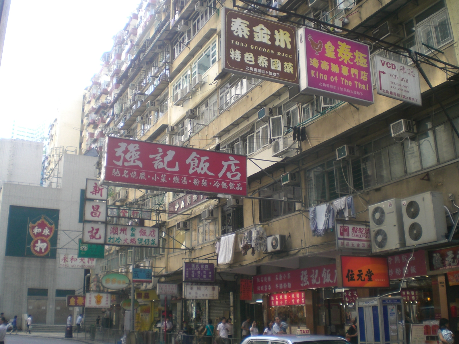 北角 書局街 美輪大廈